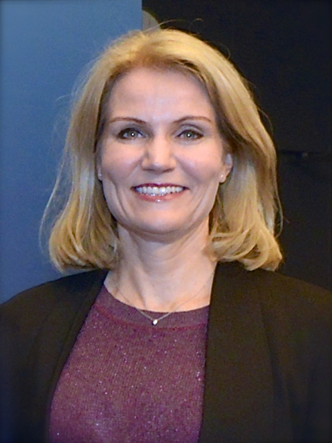 Helle Thorning-Schmidt on the press conference with the Nordic and Baltic prime ministers before the Nordic Council Session in Stockholm October 27, 2014.